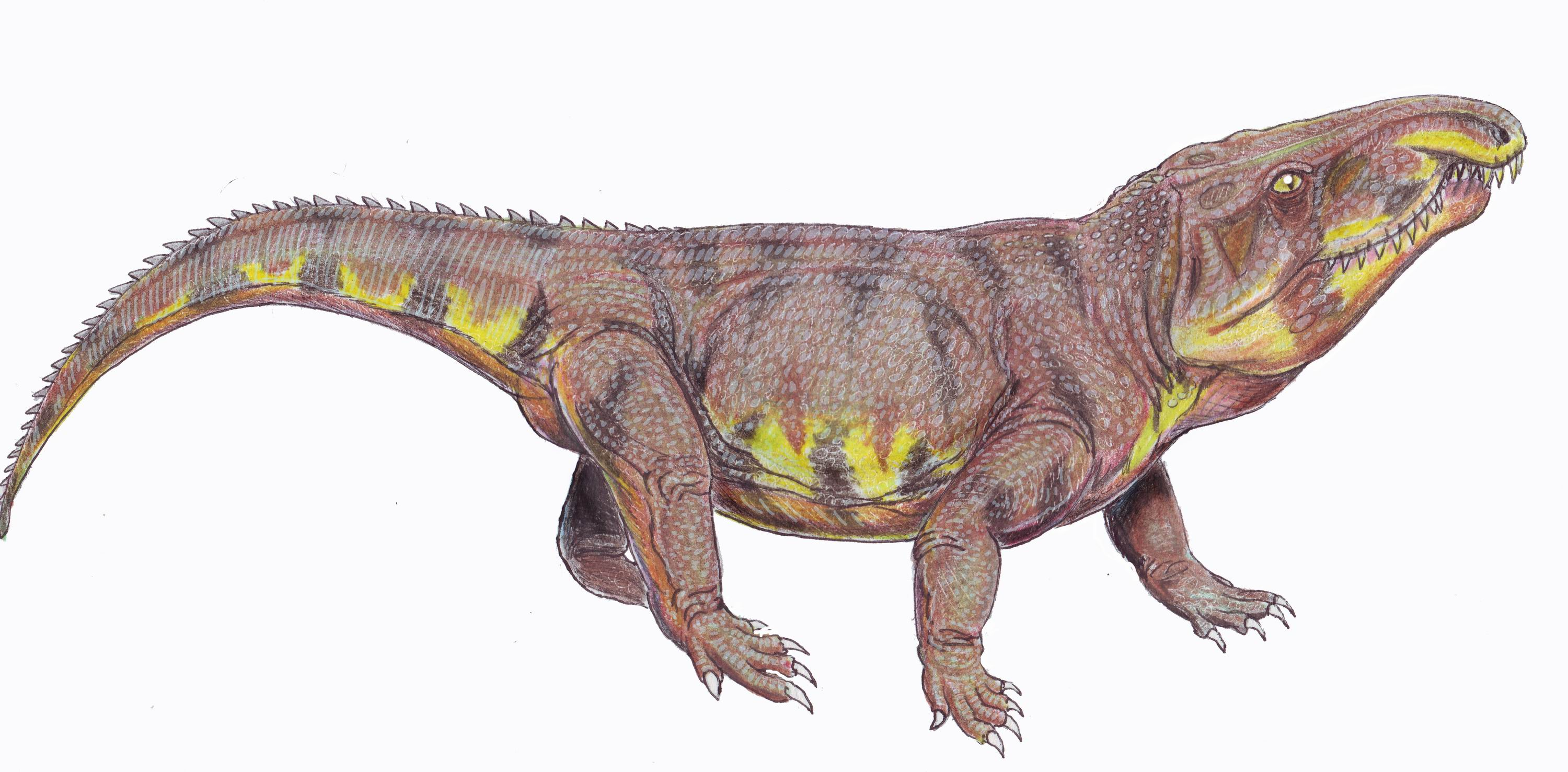 Chalishevia cothurnata from Middle Triassic of Orenburg region